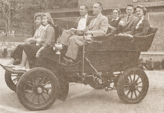 1904 Knox Surrey